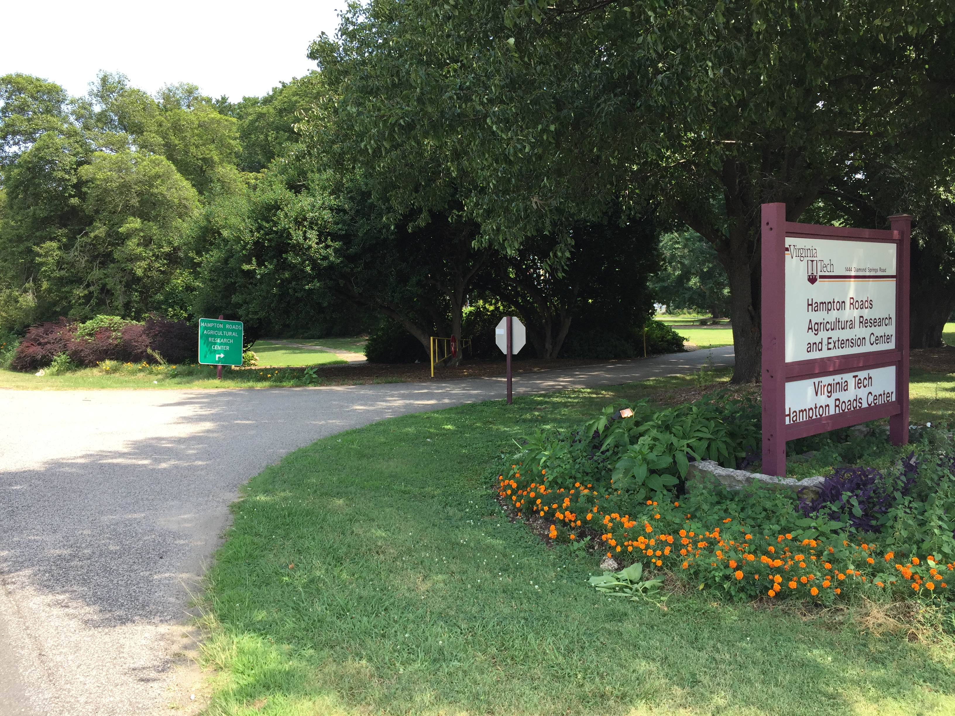 View north along Virginia State Route 332 at Virginia State Route 166 (Diamond Springs Road) at the Hampton Roads Agricultural Research and Extension Center of Virginia Tech in Virginia Beach, Virginia